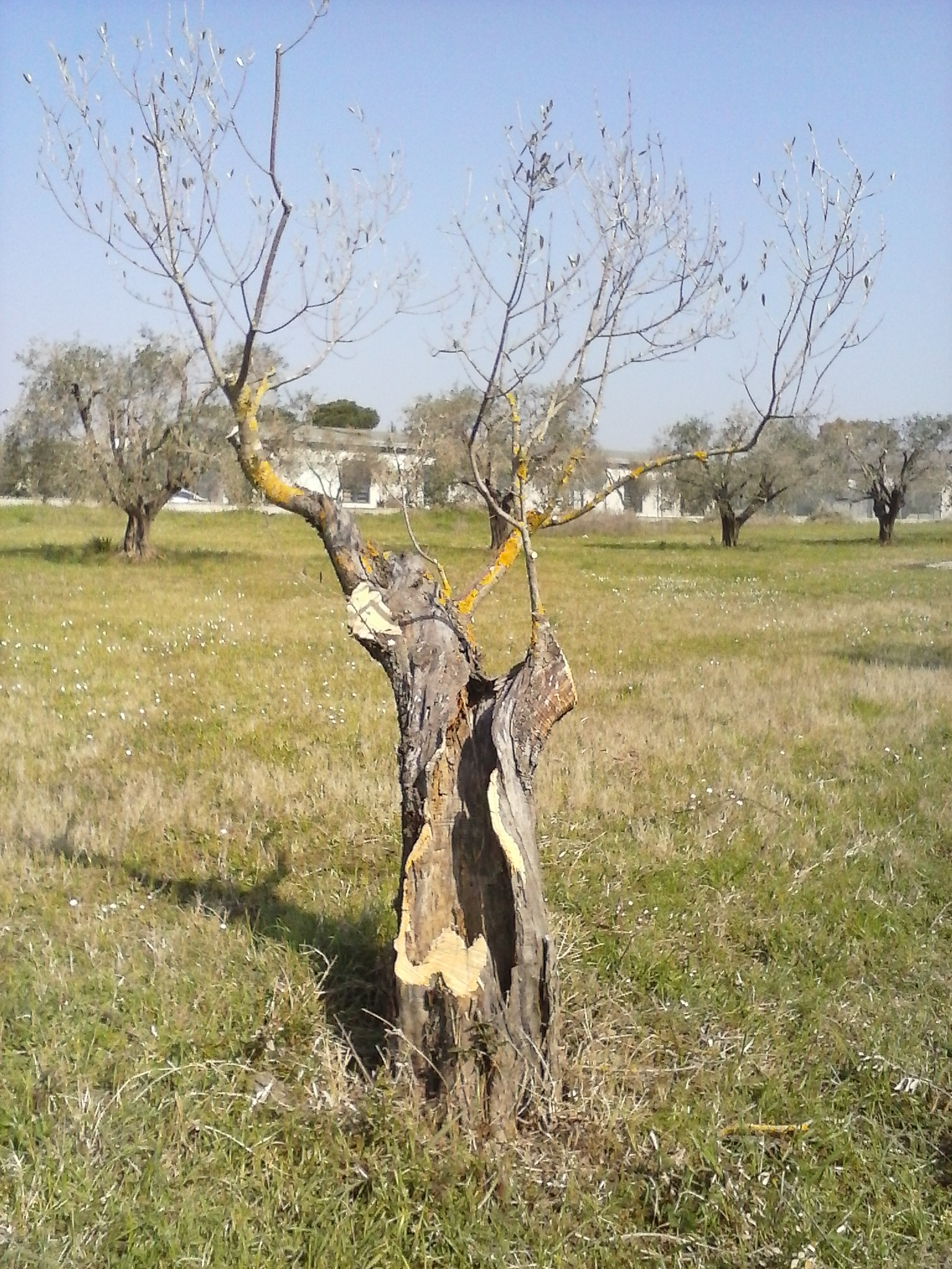 Can I use this photo? Read here for more informations.